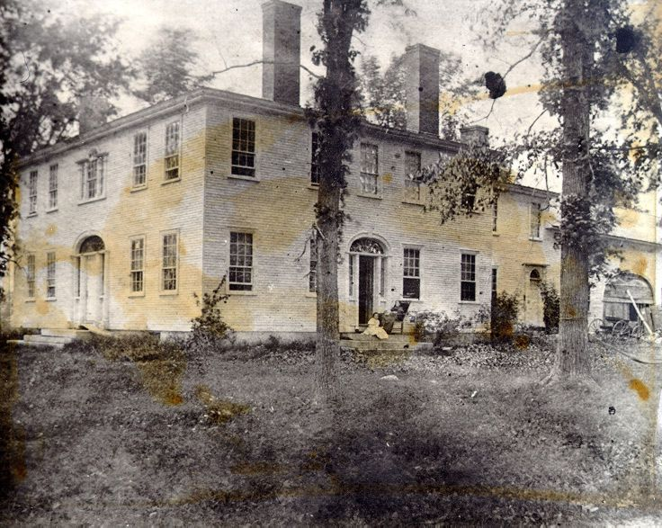 Photograph of the exterior of the Blazo-Leavitt House, Parsonsfield, Maine, built in 1812. The house was built by the Blazo family and subsequently occupied by the Leavitts, their descendants. The home is on the National Register of Historic Places.